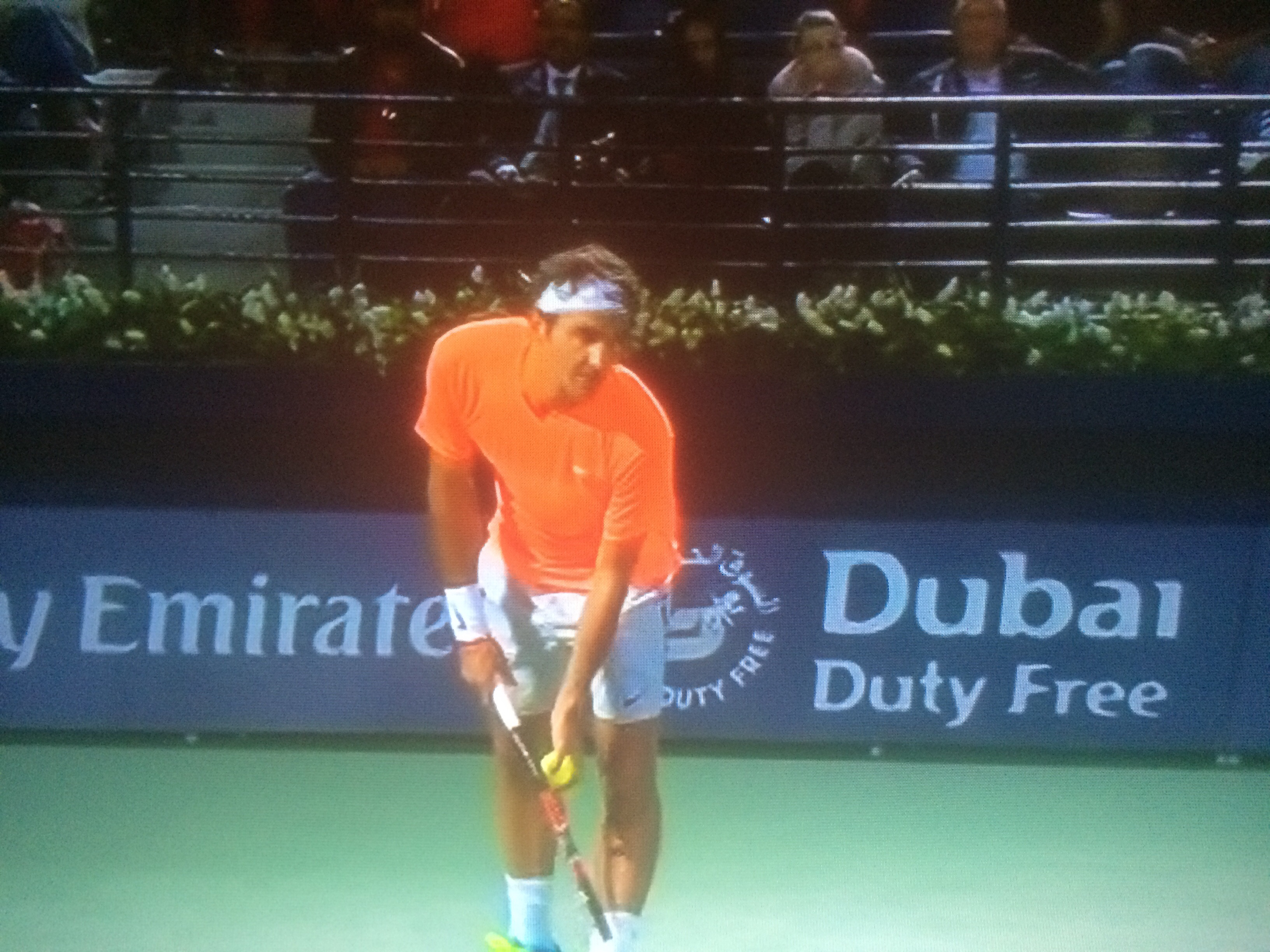 Roger Federer serving against Fernando Verdasco at the 2015 Dubai Tennis Championships 2R.